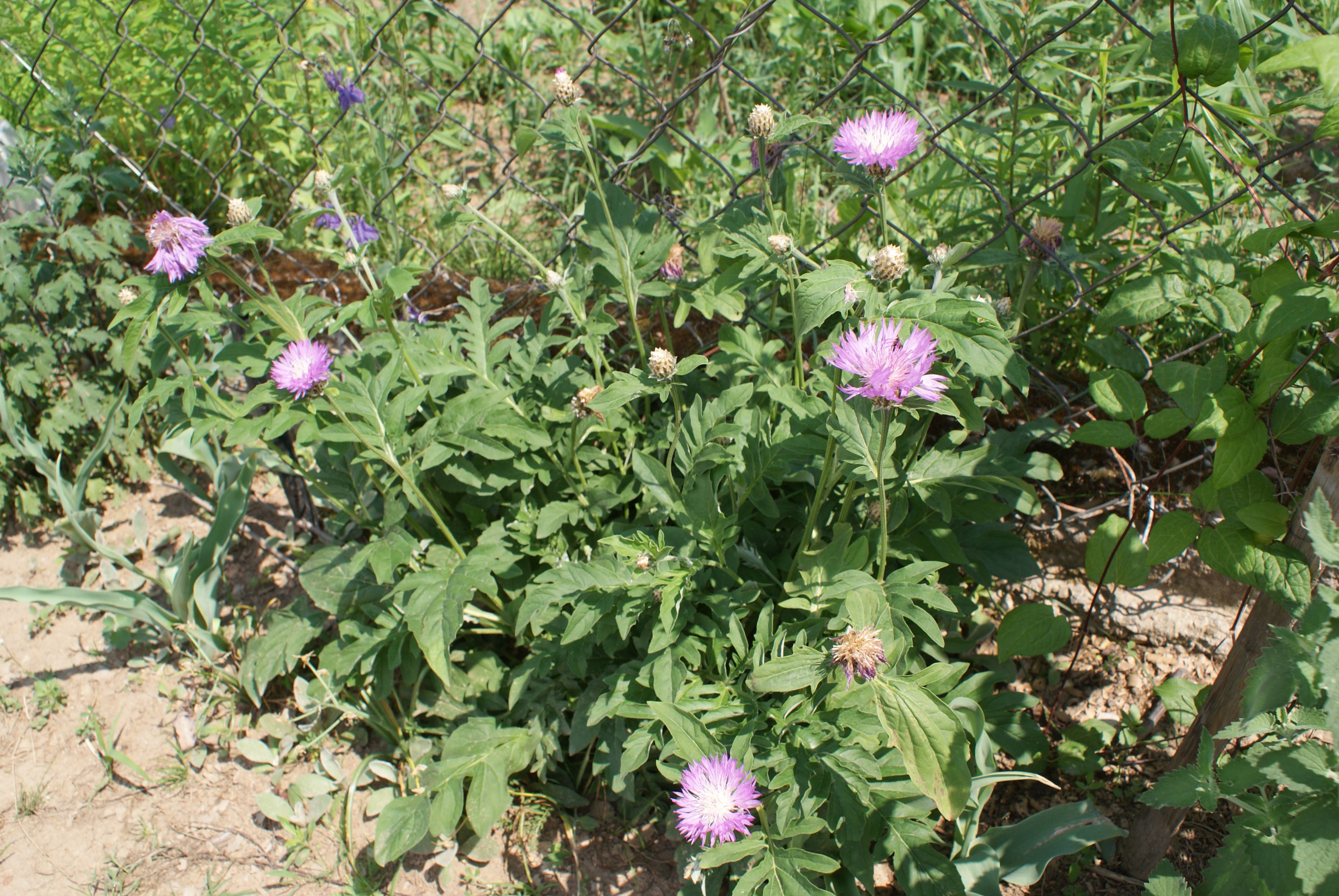 Centaurea dealbata (Belarus)